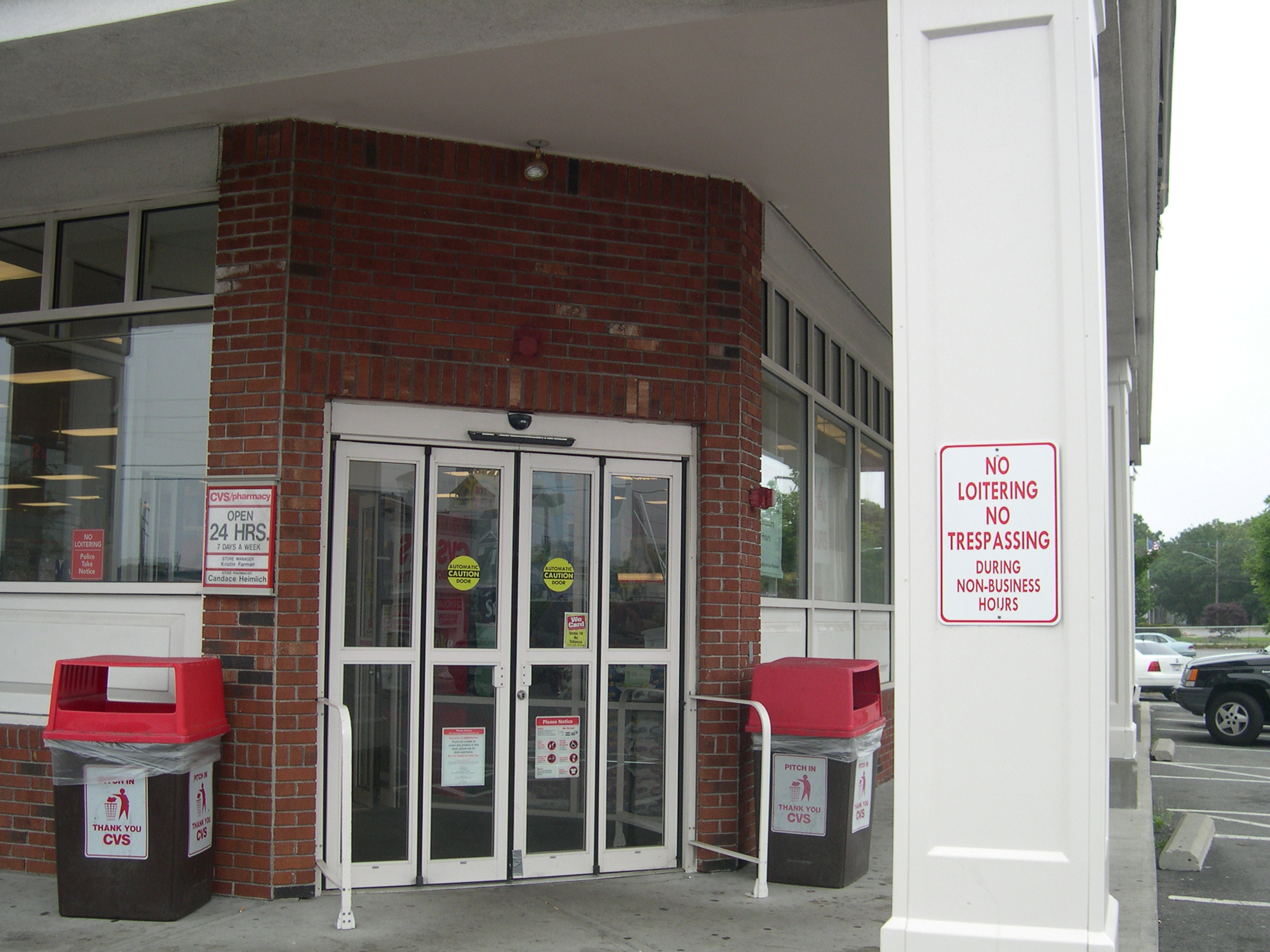 The front of a CVS/pharmacy store. Open 24 hours a day, seven days a week.